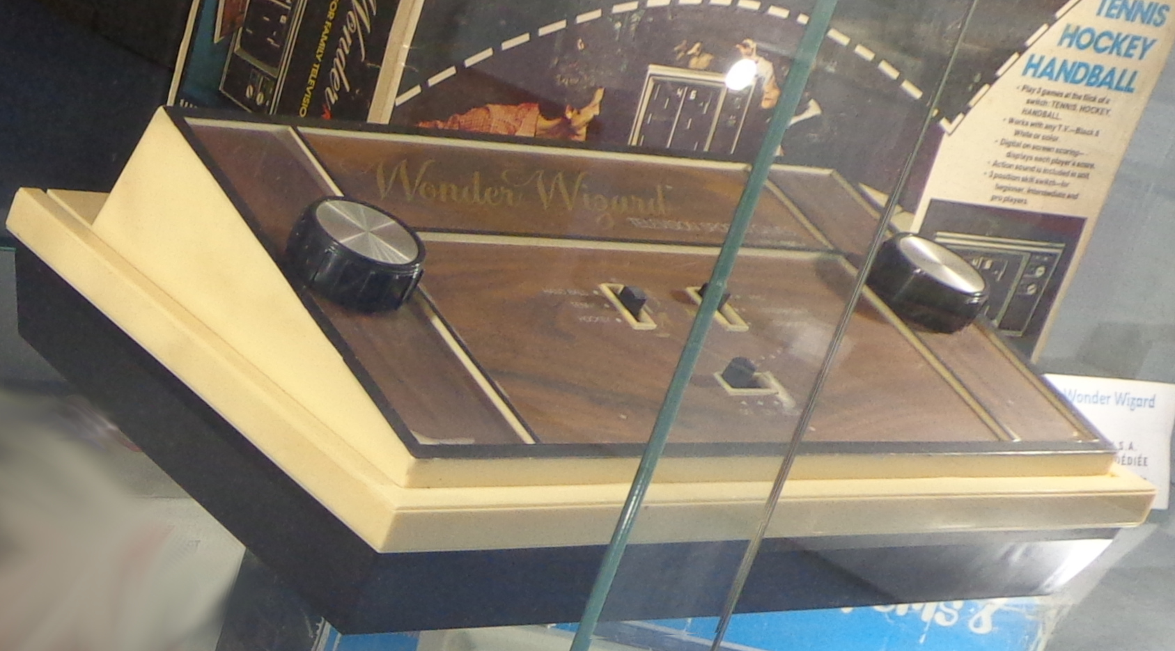 Wonder Wizard 7702 by GHP (General Home Products). 1976 Pong console. It has the same circuit board than Magnavox Odyssey 300: 3 games